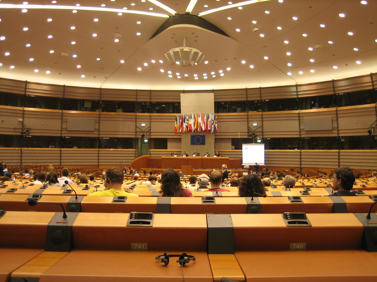 View from the rear seats of the European Parliament during an open day.